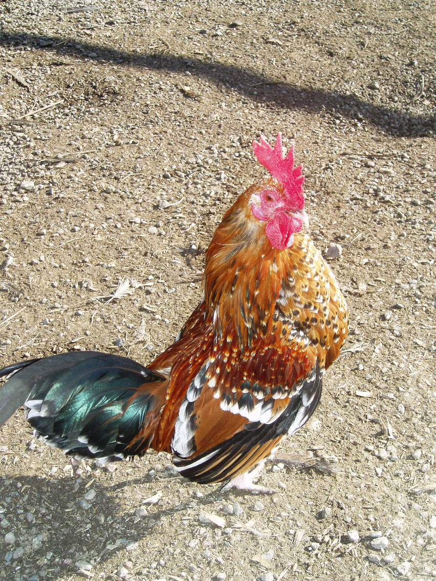 rooster, Öländsk dvärghöna, swedish chicken breed